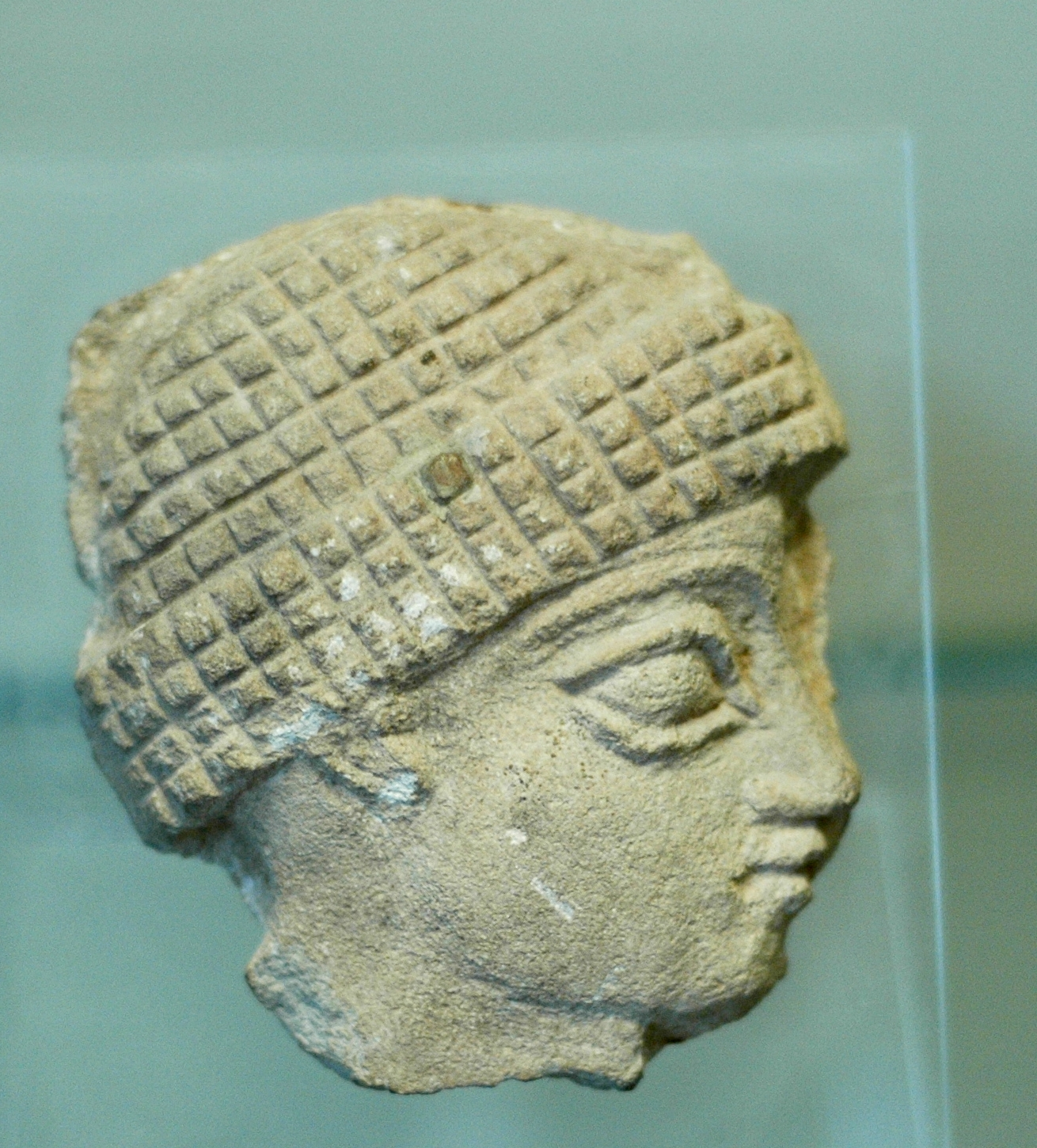 Gudea, ruler of Lagash (?). Fragment of a stele, Neo-Sumerian Period.